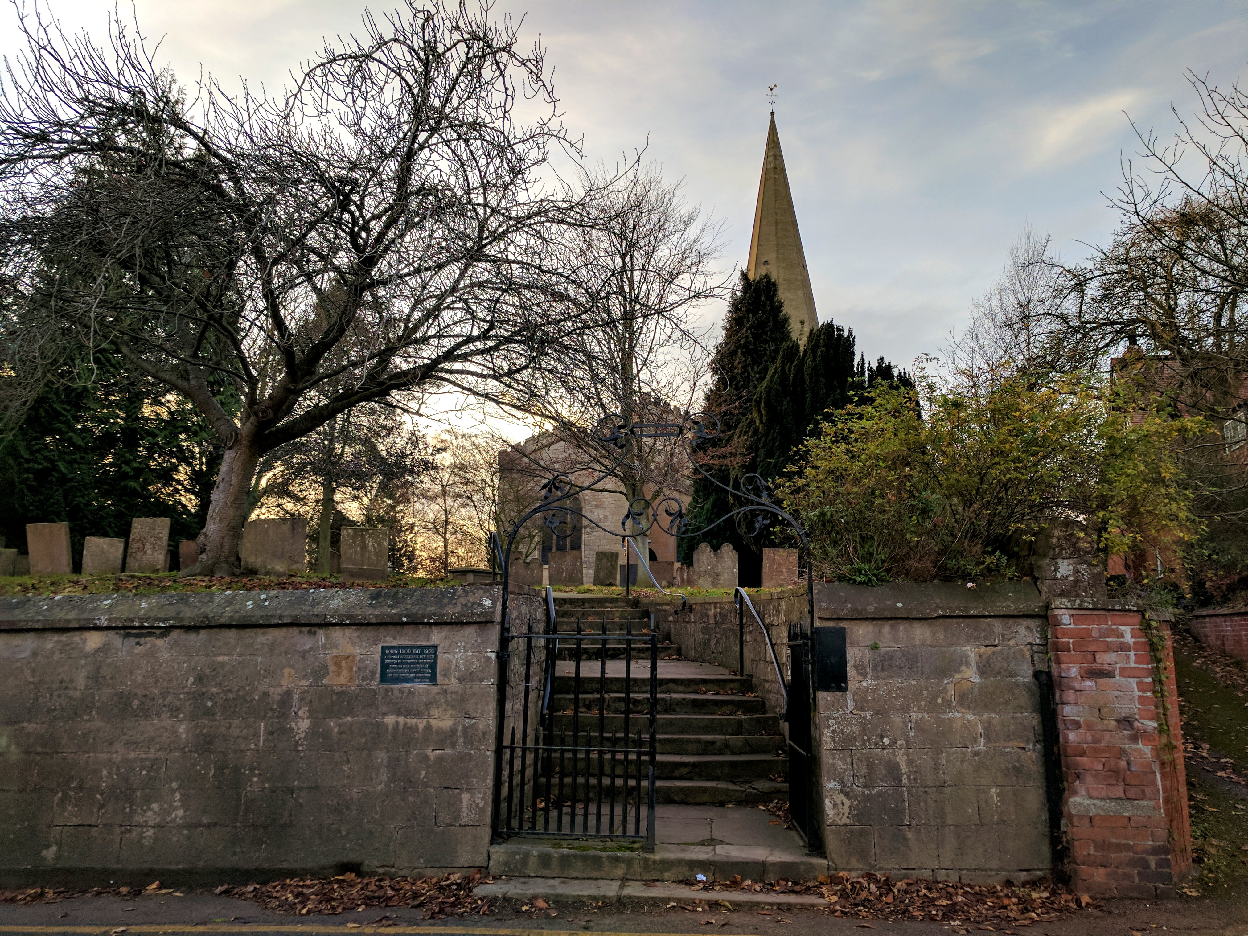 Boundary Wall, Gate, Steps And Overthrow At Church Of St Mary, Church Street, Edwinstowe Wikidata has entry Q26651460 with data related to this item.